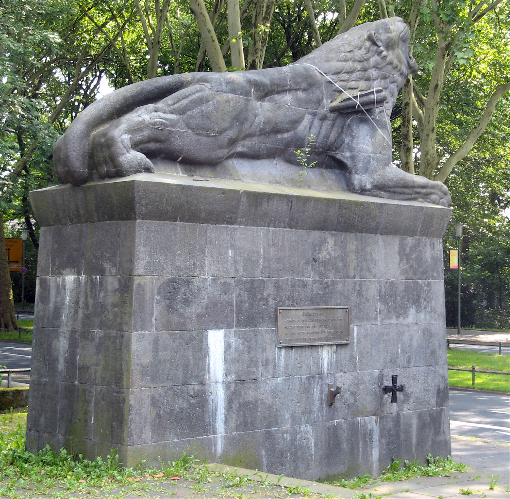 Bochum-Ehrenfeld. Denkmal mit den sterbenden Löwen. Errichtet 1928 zur Verherrlichung des Heldentodes und des Krieges - ist uns heute Mahnung zur friedlichen Verständigung unter den Völkern. The monument of the dying lion. It was build in 1928 in order in glorification of heroic death. The legend is: succumbed to superiority, in mind undefeated. Today we treat the monument as a warning of the result of megalomnia.